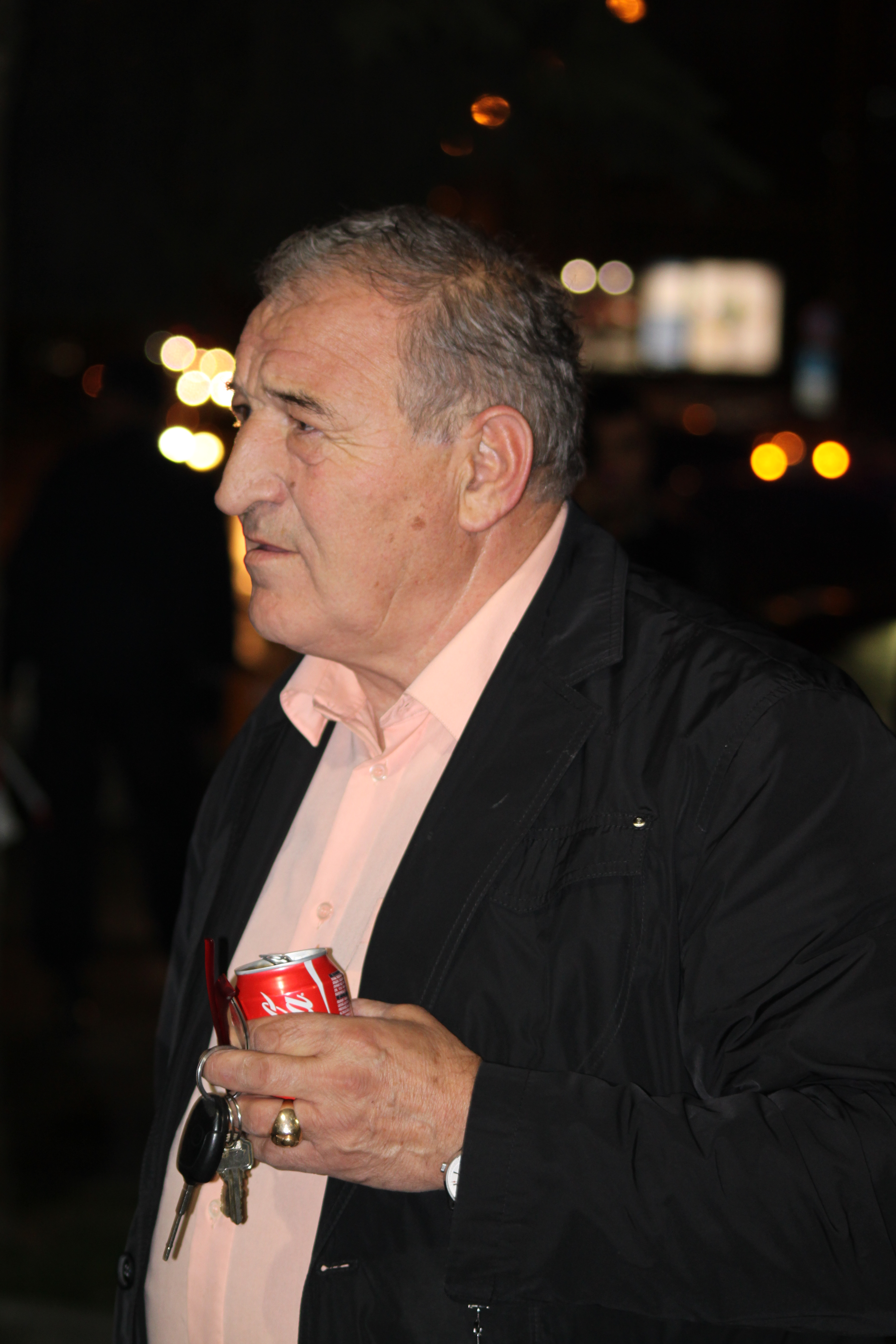 Dimitar Penev - bulgarian soccer coach